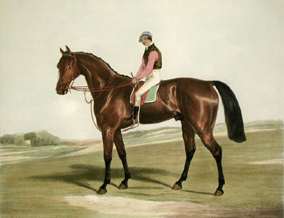 Painting of 1844 Epsom Derby winner The Merry Monarch with jockey F. Bell by Francis Calcraft Turner. Painting is contemporary, so artist is certainly long dead.